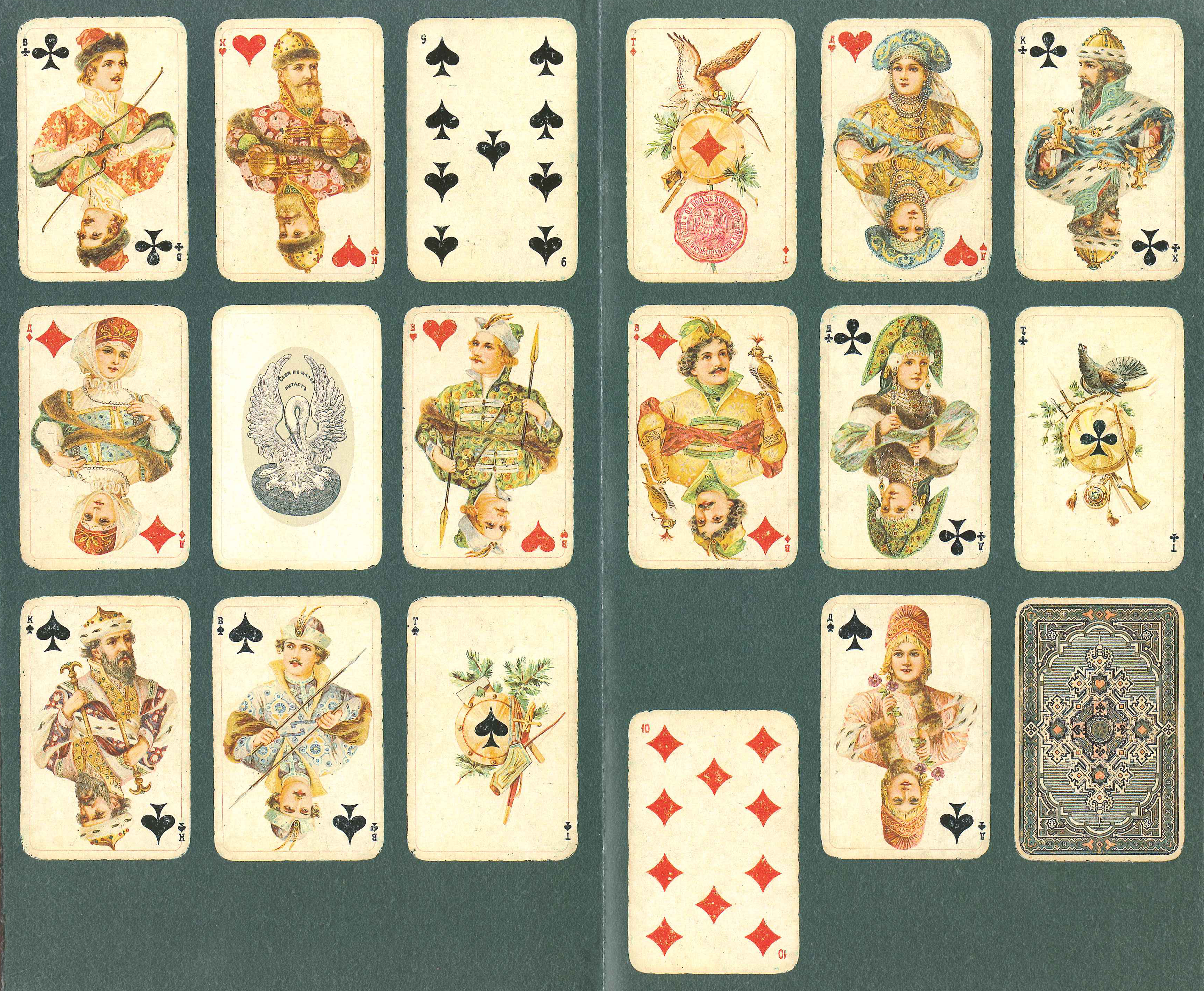 Russian playing card deck called "Russian style", designed in 1911 by "Dondorf GmbH" (Germany), original print